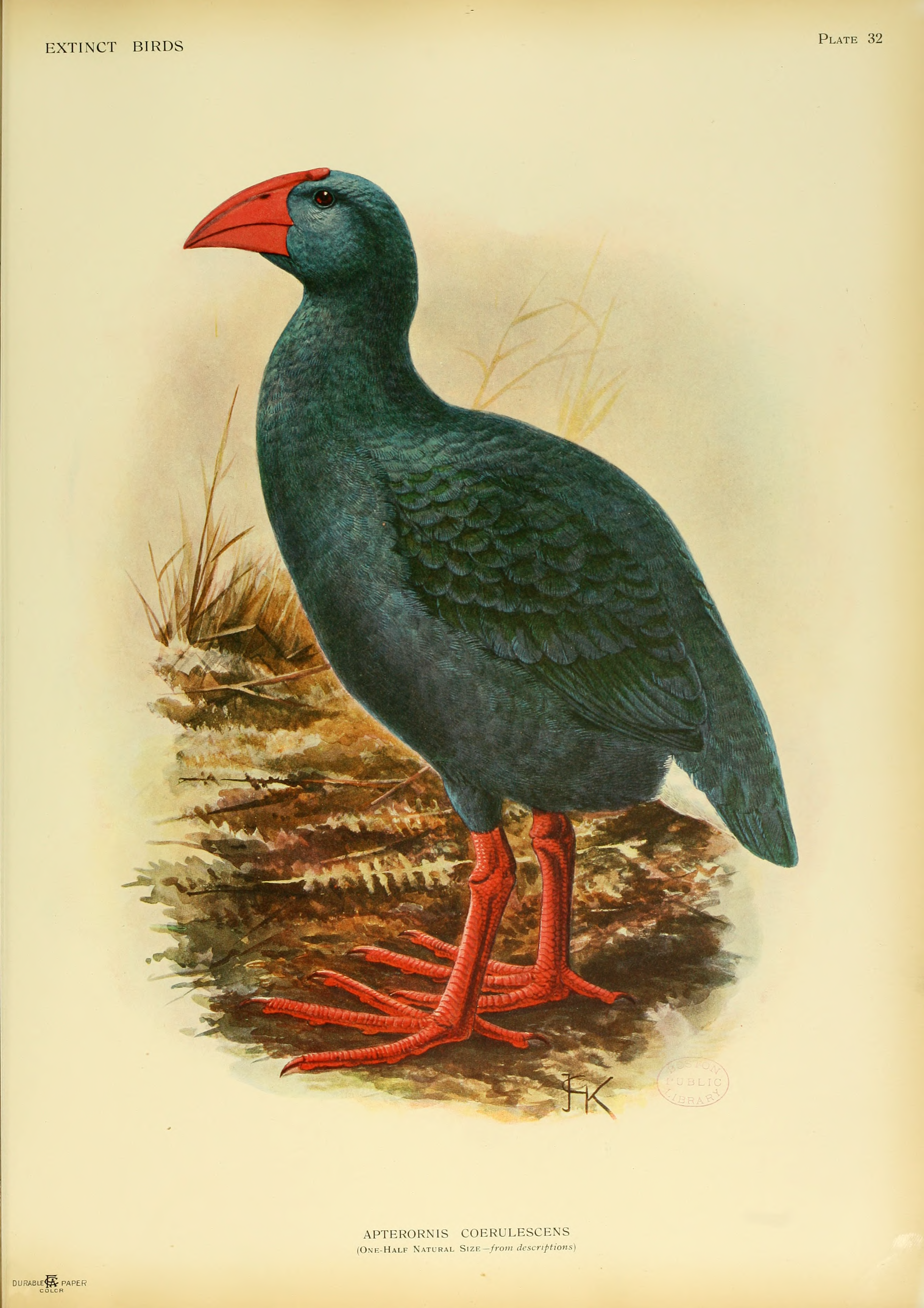 The Réunion Swamphen, Réunion Gallinule or Oiseau bleu (Porphyrio coerulescens) is a hypothetical species of extinct rail from Réunion, Mascarenes until now only known from reports of travellers.